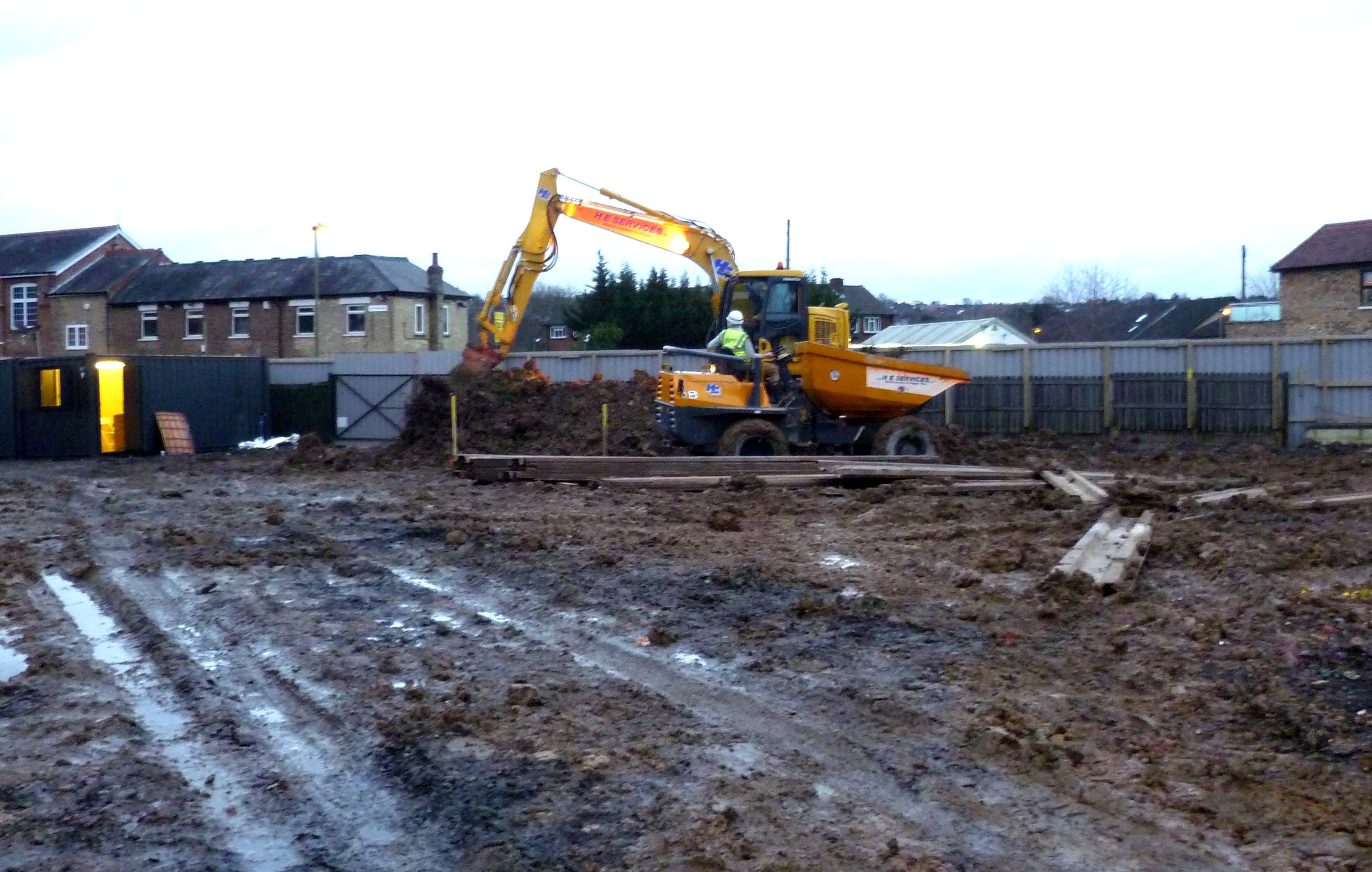 Former site of The Alexandra pub